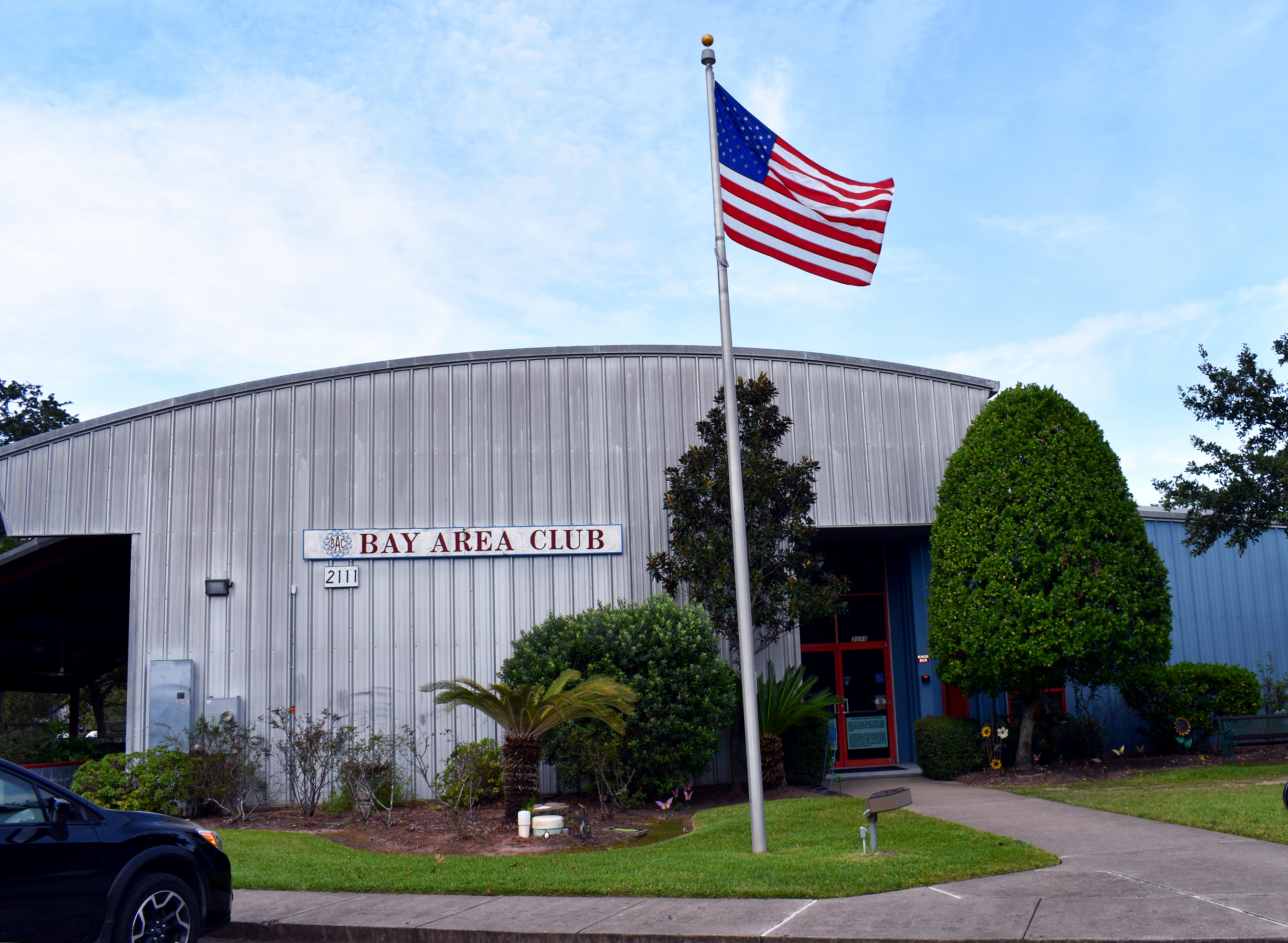 The Bay Area Club is a location for recovery groups to meet in League City, Texas.